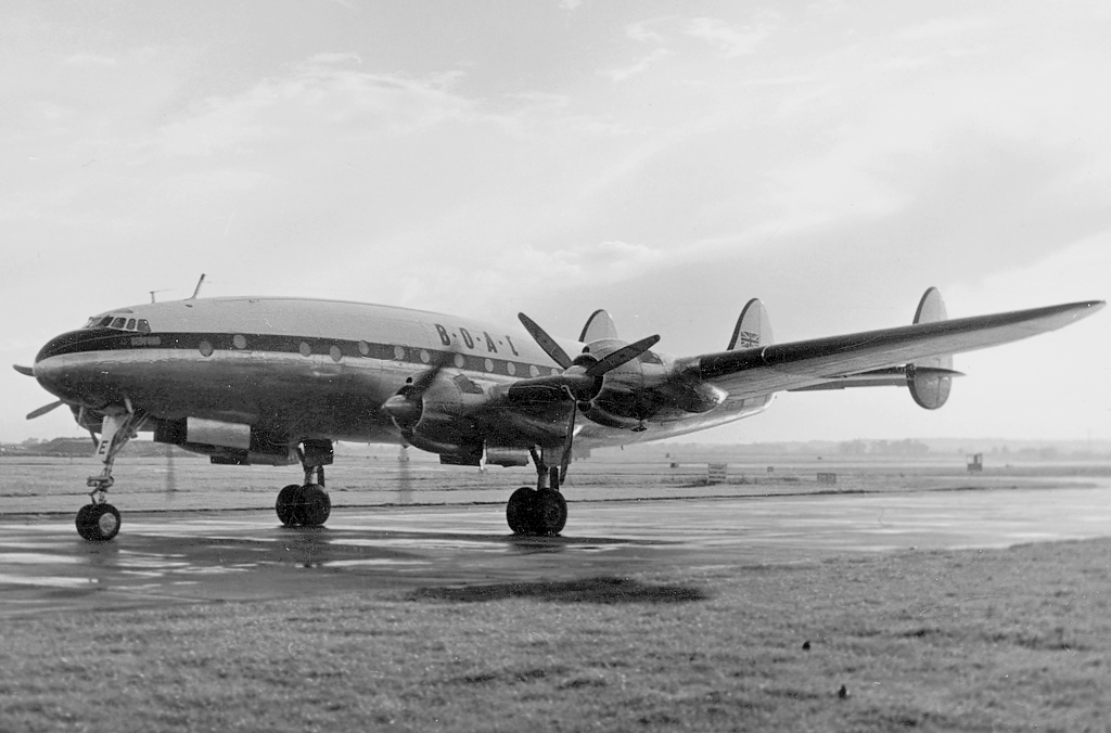 Lockheed C-69C (L049) Constellation G-AKCE of BOAC arriving at Heathrow North in 1954